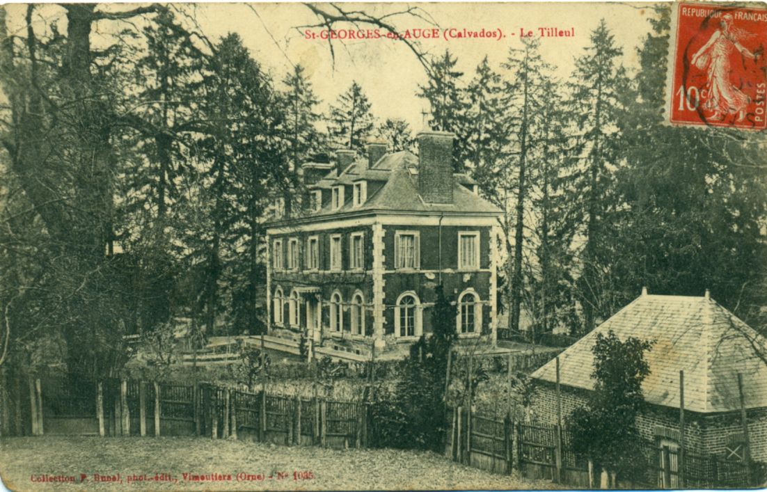 Black and white postcard of the Tilleul manor house in Saint-Georges-en-Auge (Calvados, France)